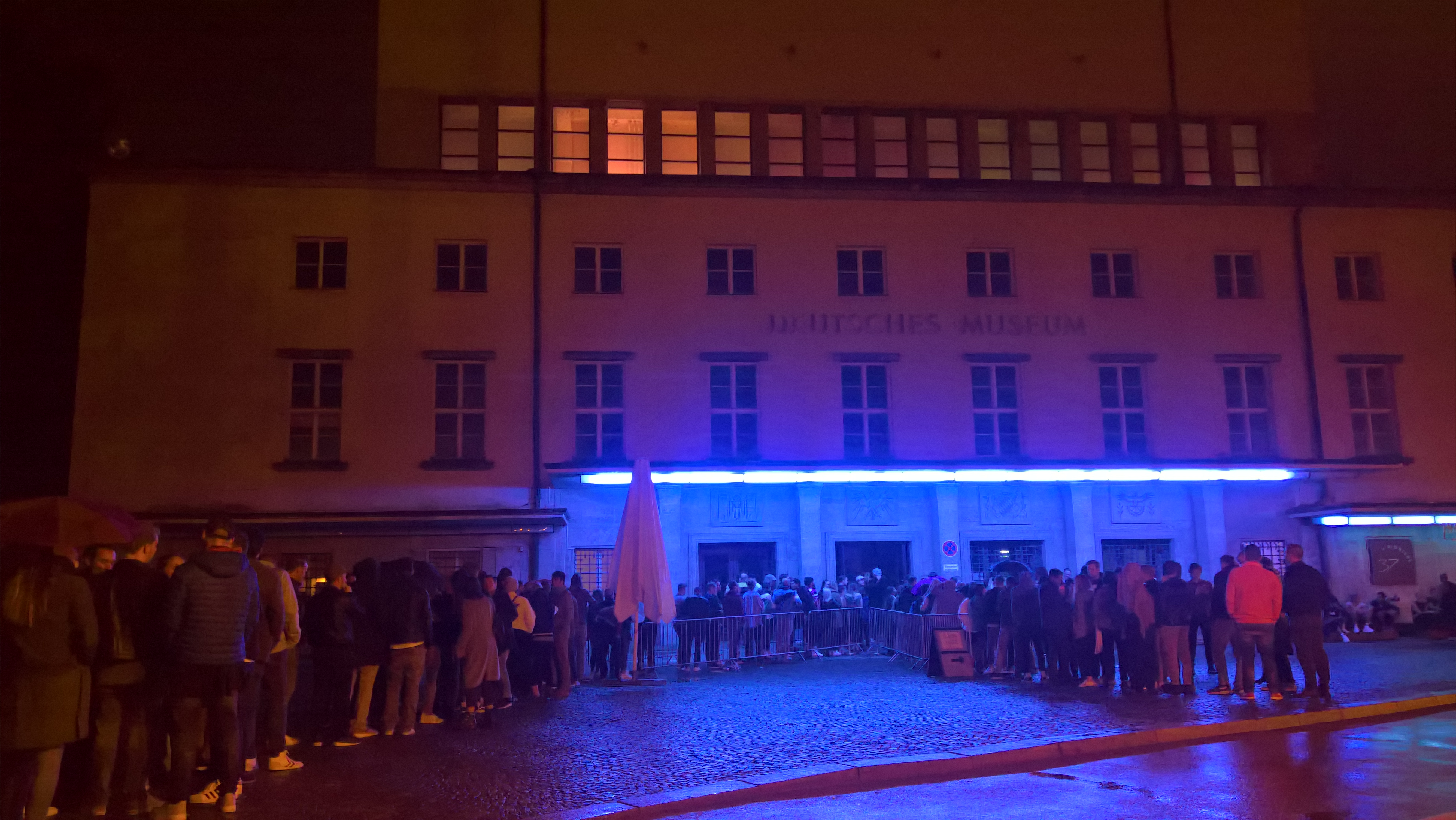 People waiting in line in front of Munich's techno nightclub Blitz in 2018.